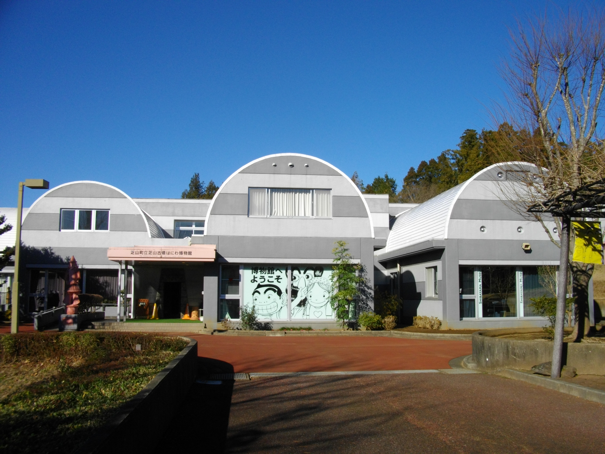 Shibayama Ancient-tomb and Clay-image Museum